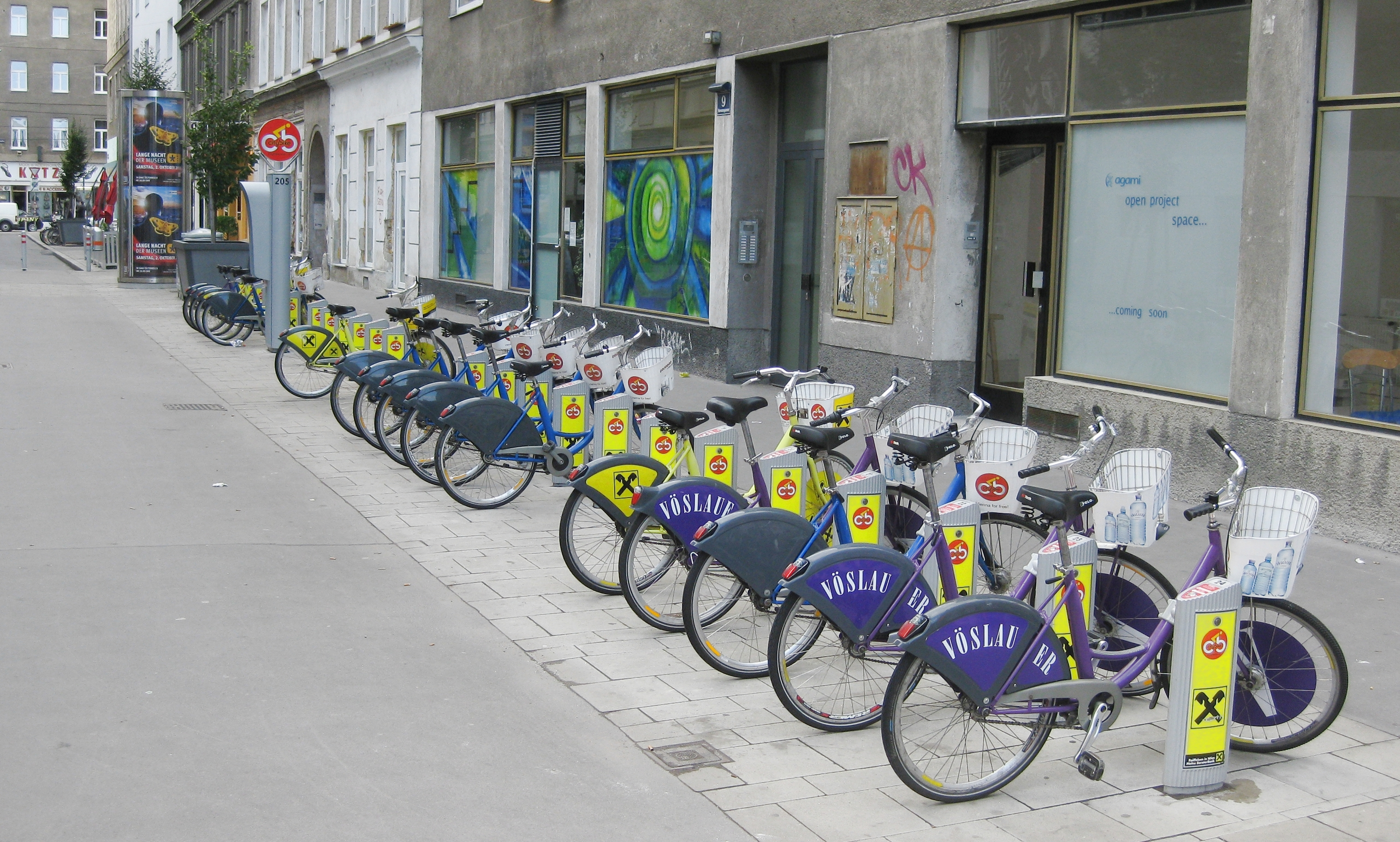 Rental station of the public bicycle service "Citybike" in Novaragasse, vienna, austria